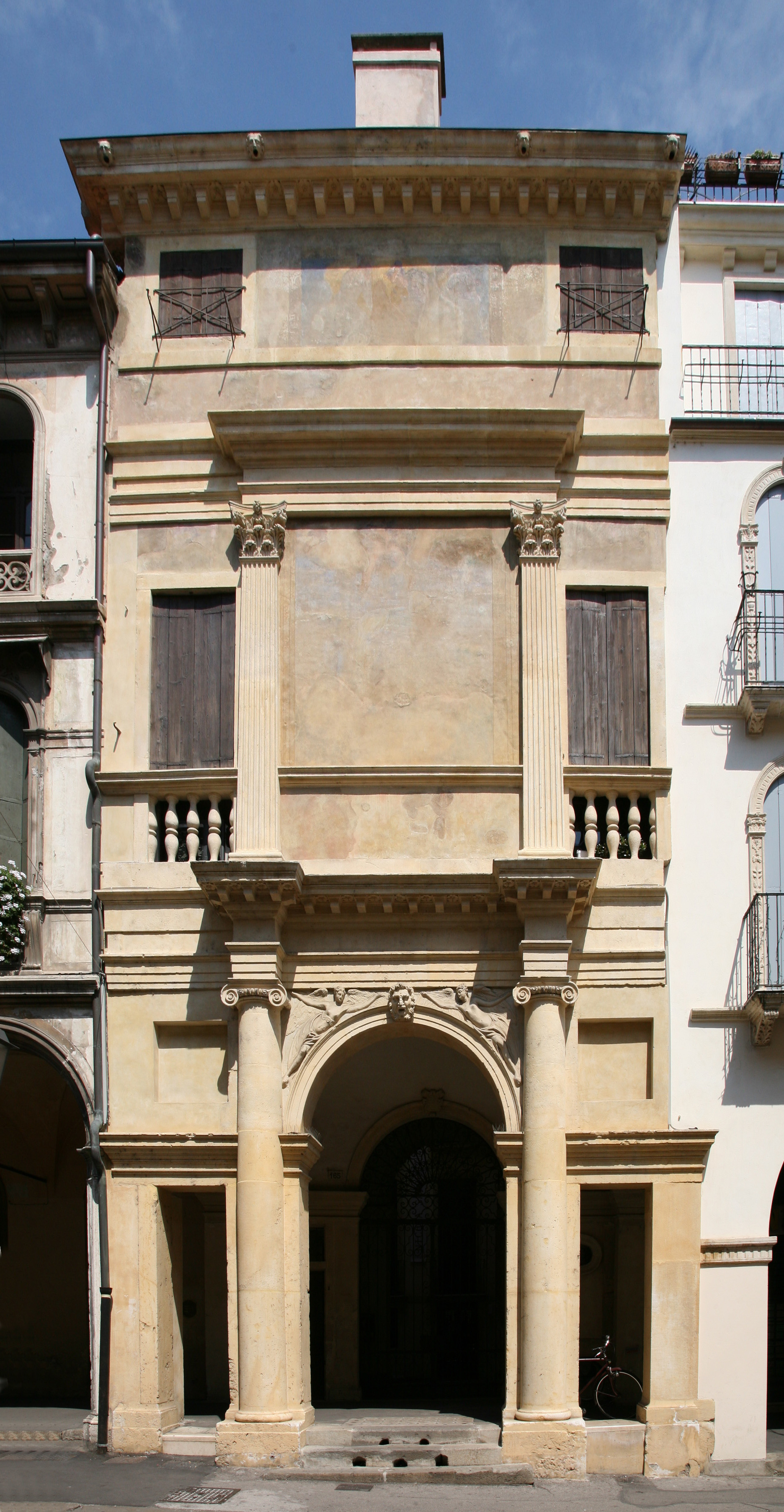 Casa Cogollo, sometimes called casa del Palladio, is a small palace in Vicenza attributed to Andrea Palladio (design, not execution). The actual colour of the facade was made after the 2003 restoration.